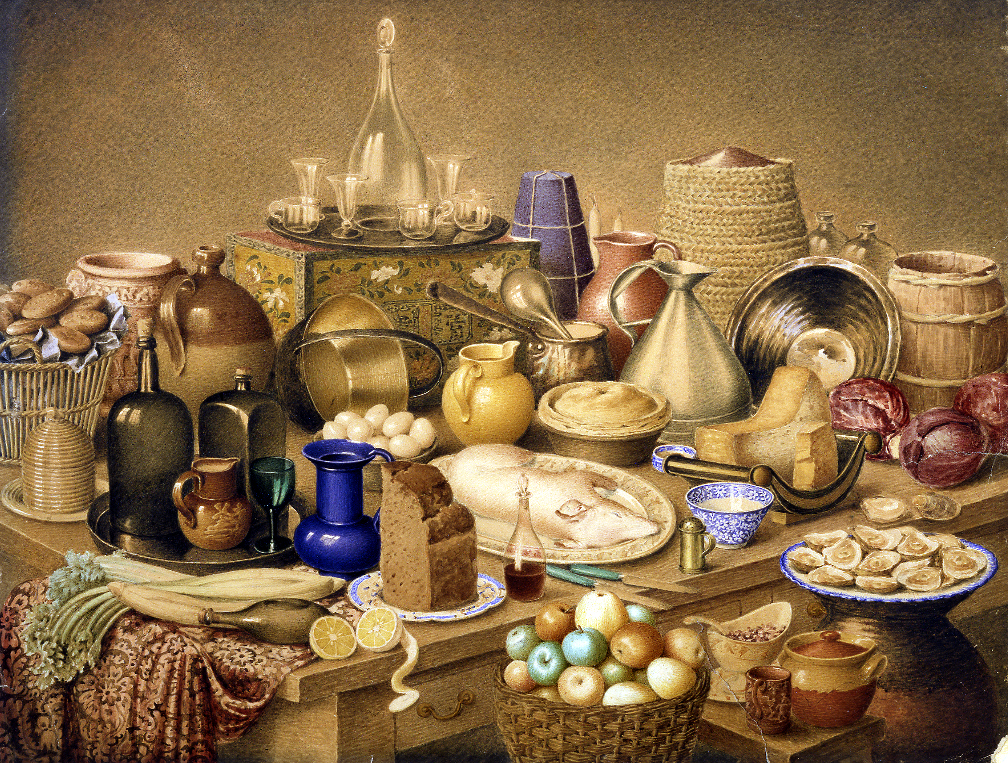 Watercolour of a still life of food.